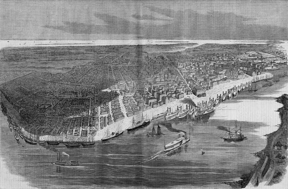 The City of New Orleans, Louisiana, a wood engraving published in Harper's Weekly, May 1862. Artist's "birds eye view" from perspective in the air above the Mississippi River across from Faubourg Ste. Marie area, now old warehouse district, looking back to Lake Pontchartrain. The line of Canal Street is right of center; the block of the US Customs House to the right of its river end. Note sizable area of open ground along the riverfront; in this era used as space for cargo being loaded and unloaded from steamships. Clearly seen are Bayou St. John connecting to Lake Ponchartrain towards the top of the view, with the Carondelet Canal visible; seen but less distinct is the New Basin Canal just left of center.